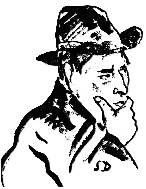 Portrait of the writer N. Davidescu, published as an illustration to Davidescu's story Vioara mută.